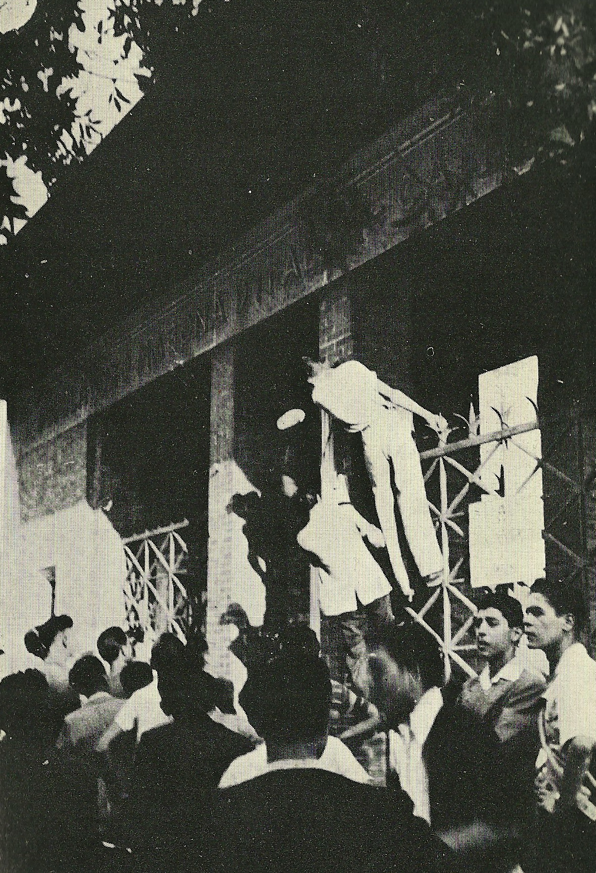 Workers of the steel mill "La Magona" in Piombino (province of Livorno, Tuscany) just outside of Magona sports field